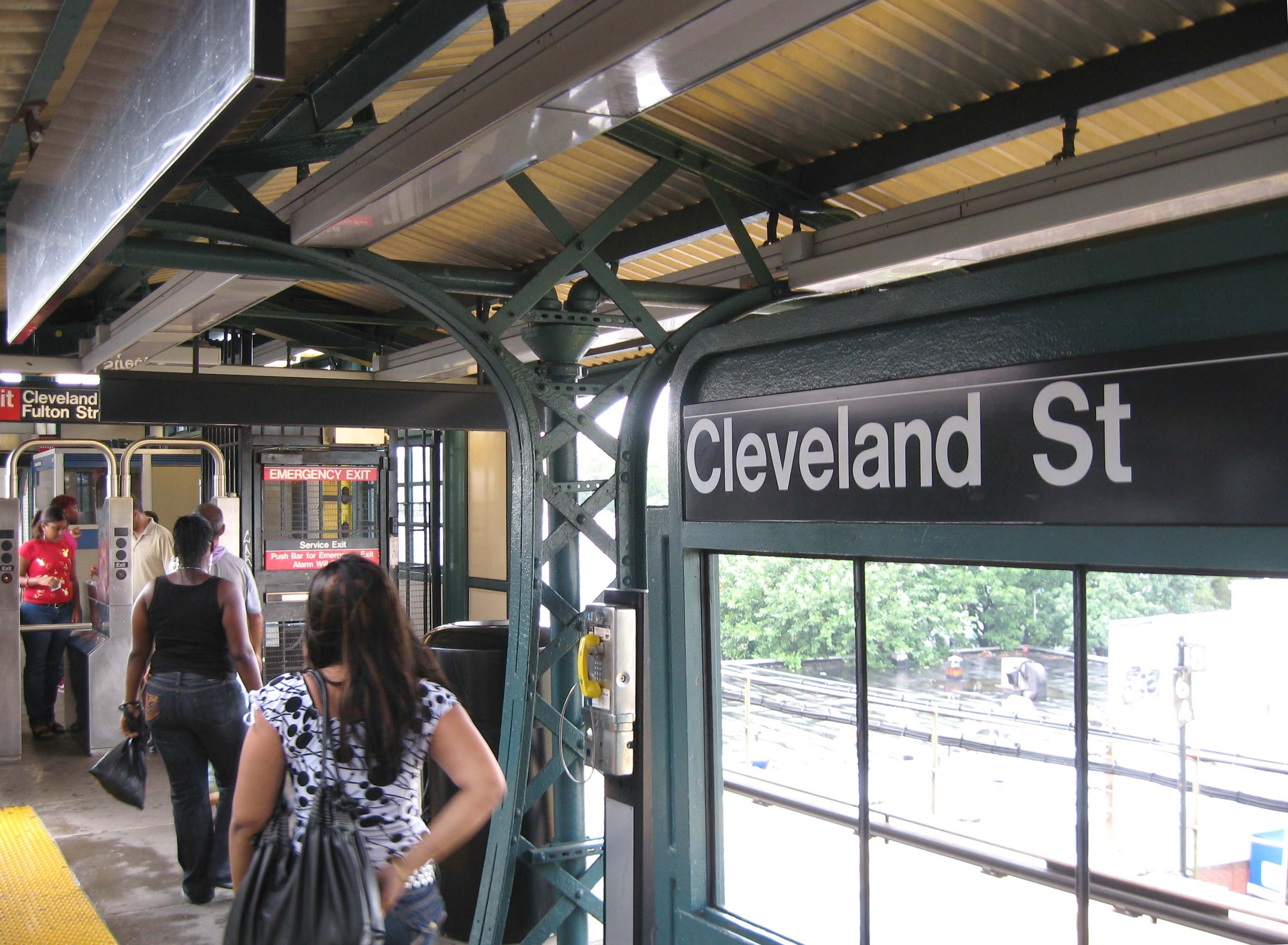 Looking east at western part of platform and fare control of Cleveland Street (BMT Jamaica Line) on a rainy midday August 2 2008.